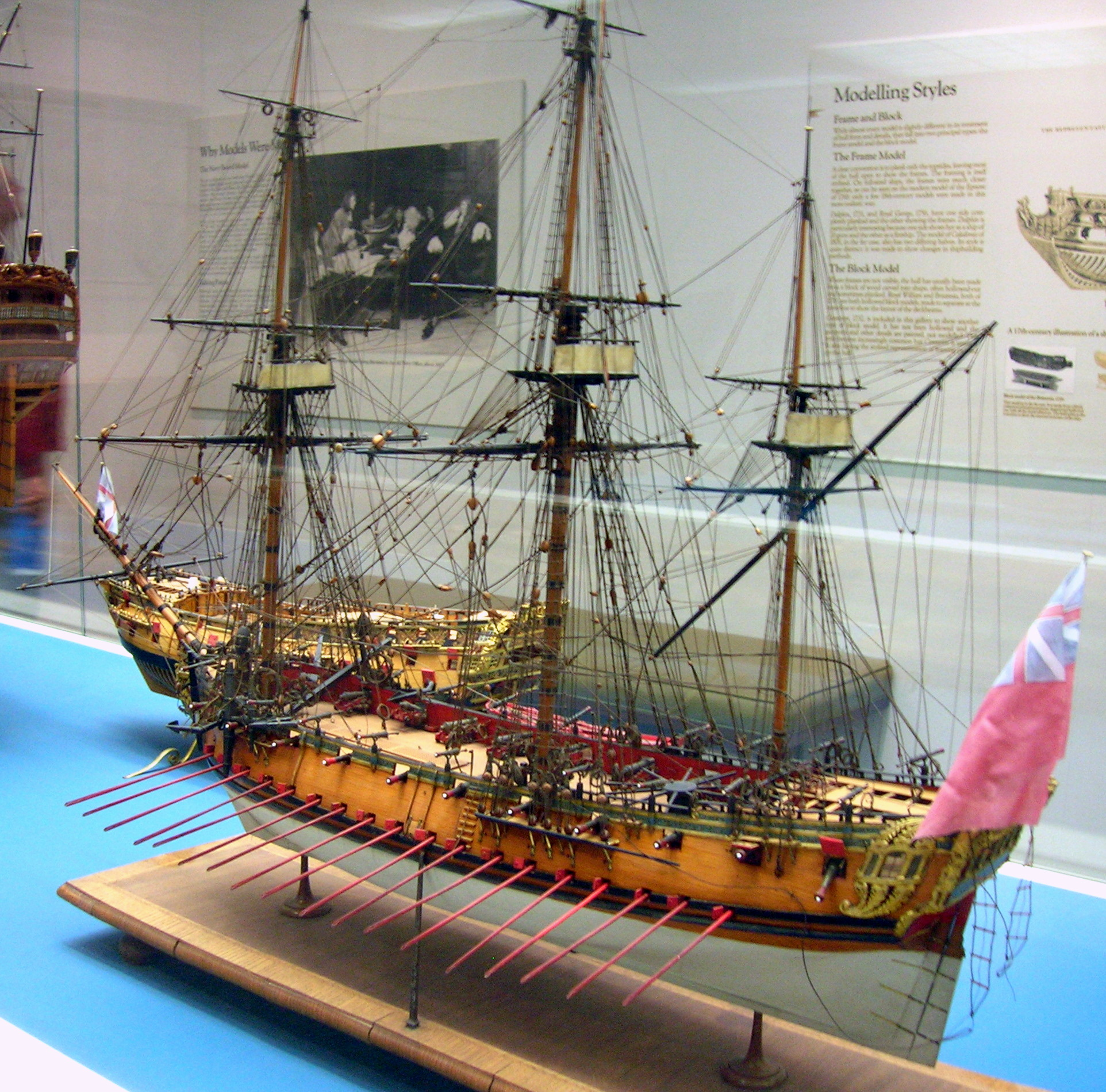 Model of a 20-gun ship, 6th rate, ca. 1719, with its oars in position. May represent a 5th rate rebuilt as a 6th rate like Blandford or Lyme.